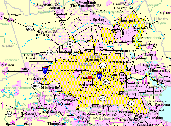 Map of Houston from the 2000 Census - modified by WhisperToMe to indicate River Oaks